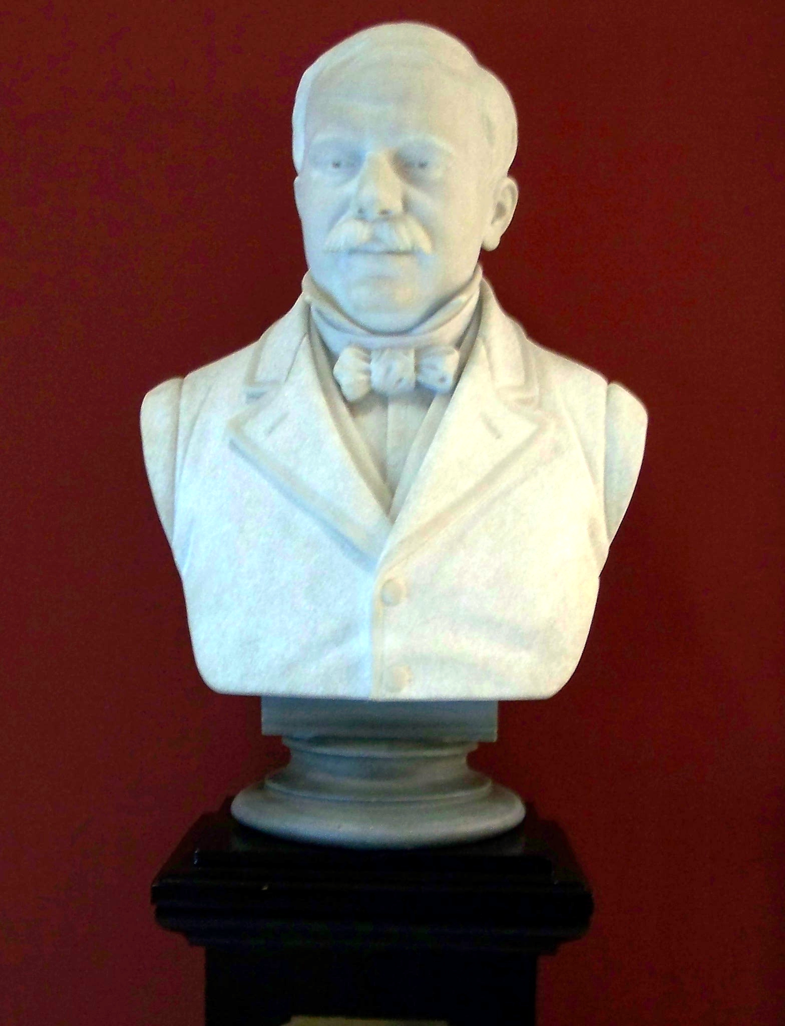 Bust or Prime minister of Greece Spyridon Trikoupis. National Historical Museum, Athens, Greece.